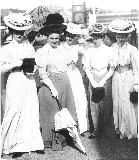 Countess Marietta Silva-Tarouca and her daughters at the horse-races in Prague in 1906. Notice the photocameras the daughters are holding.